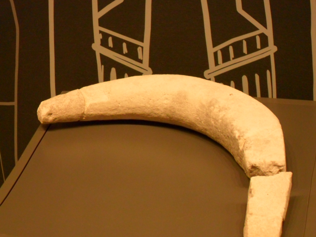 Monte Prama HORN HELMET